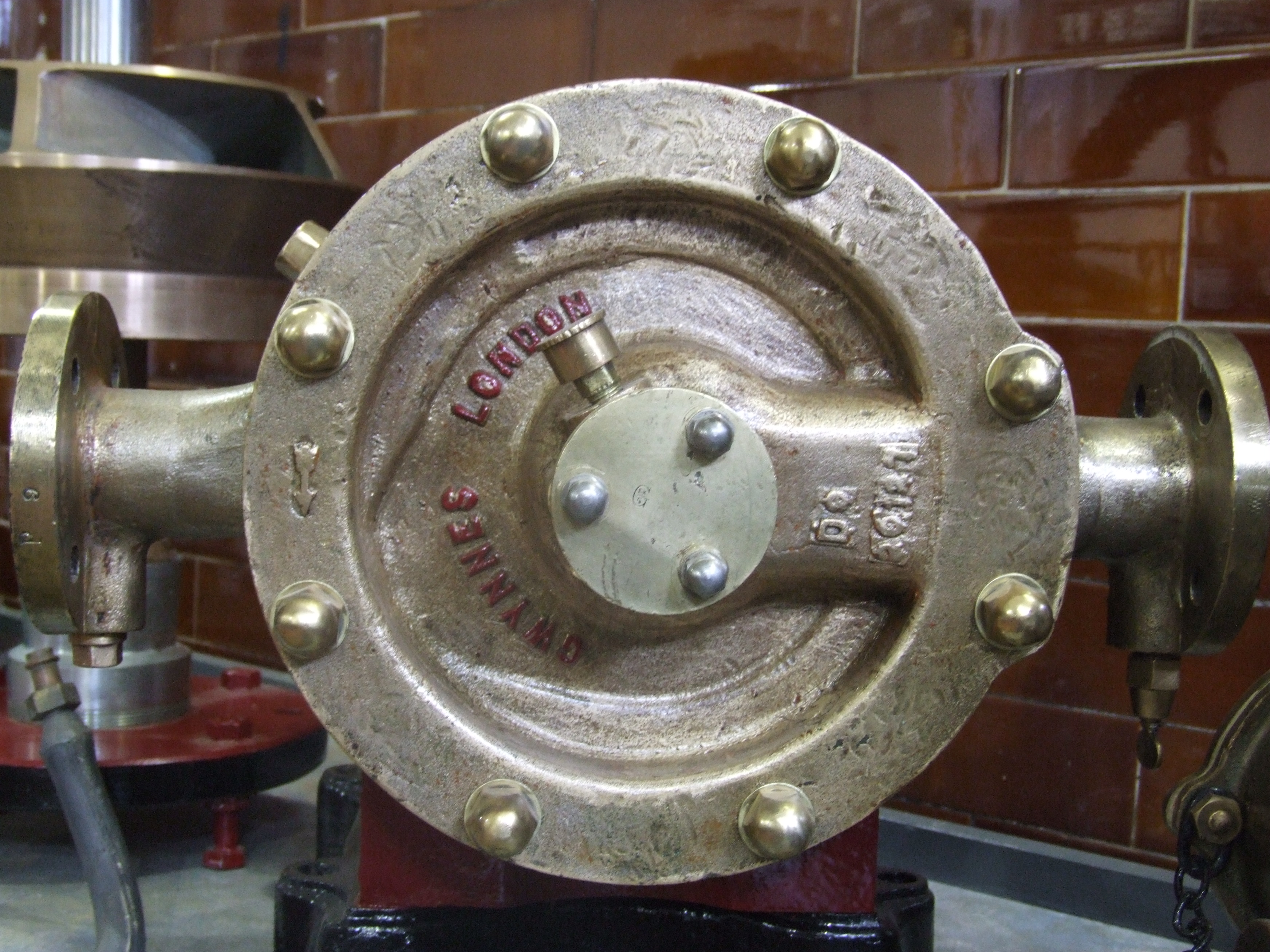 Gwynnes centrifugal pump One of many at Brede Waterworks. This one is seen from beneath and the inlet is to the right guiding water to the center of the casing where the impellor (not visable) flings it outward eventually exiting via the pipe on the left.